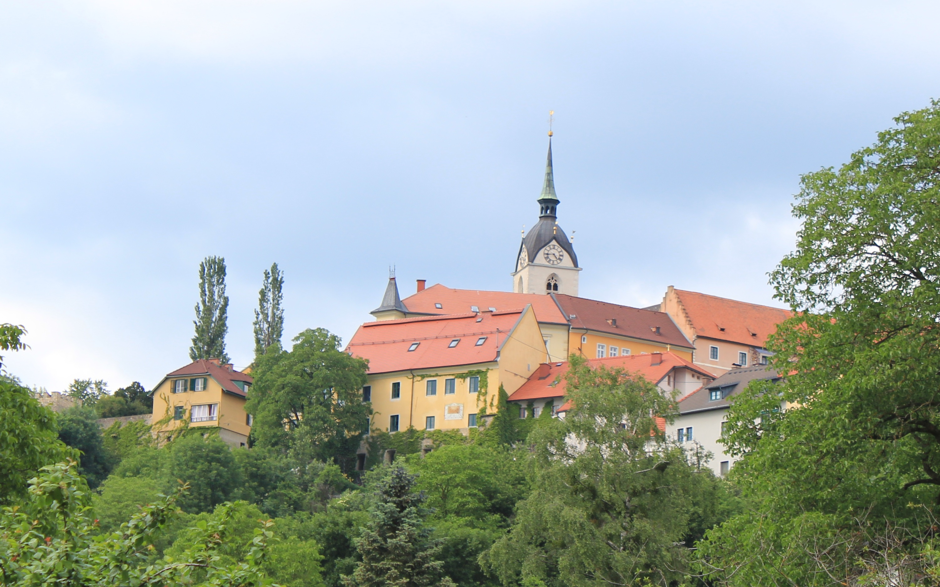 Althofen